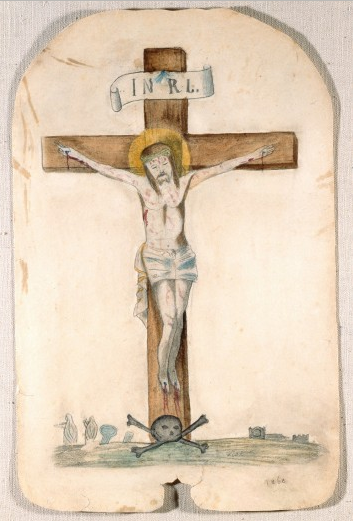 „This is one of Mucha's earliest known compositions made when he was about 8 years old.“